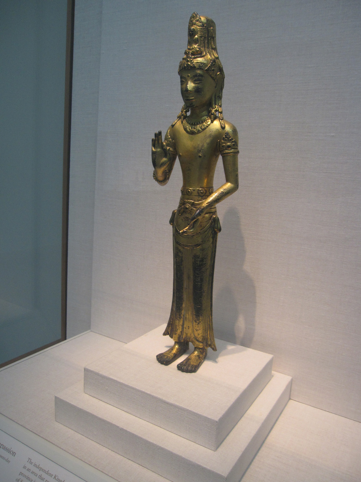 Here is a look at a flat-boobed Guanyin, typical of the Dali Kingdom, which existed in the 12th Century in what is today's Yunnan Province, China. Freer Gallery of Art is dedicated to Asian art.